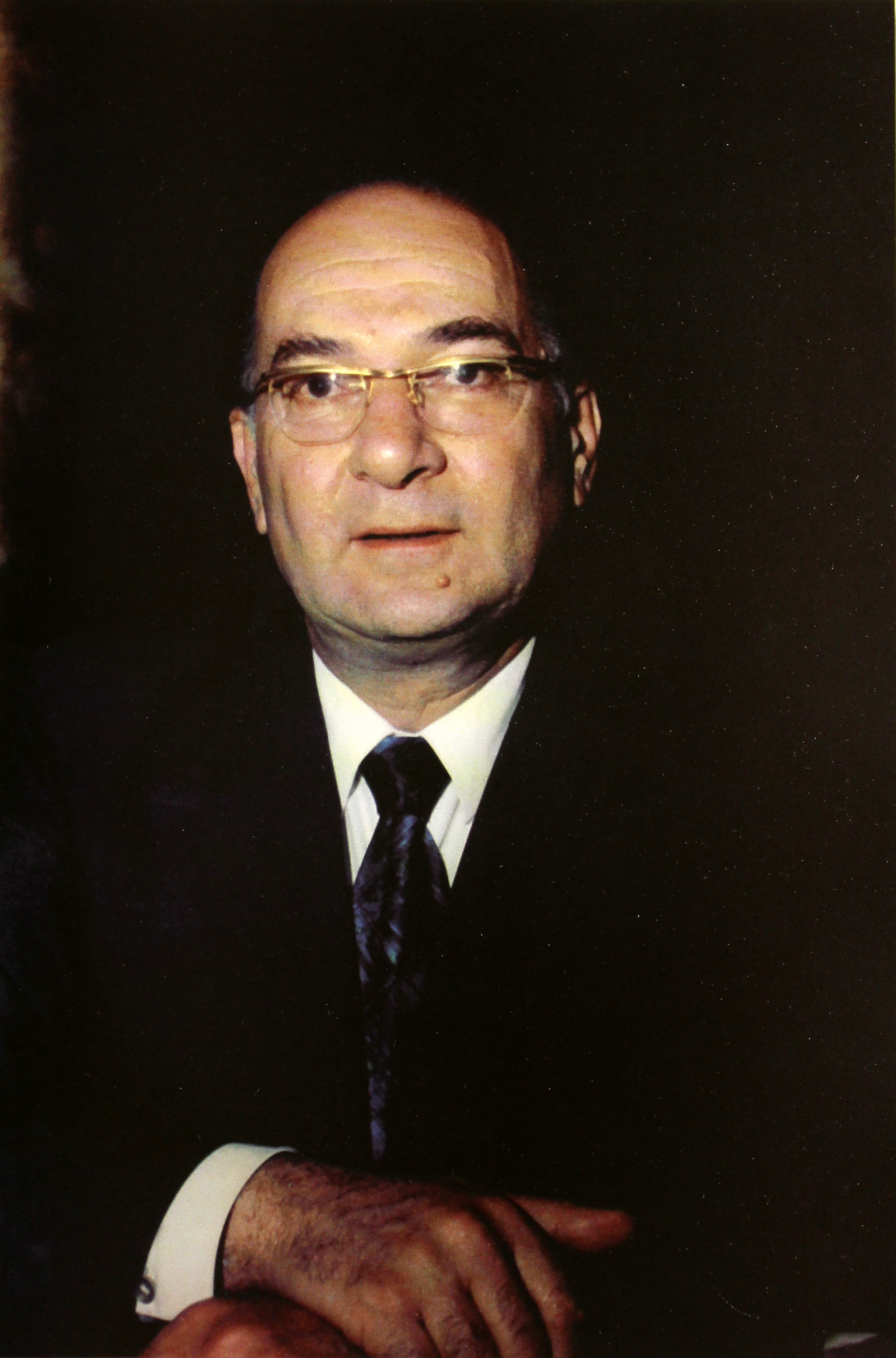 The making of this file was supported by Wikimedia Armenia.